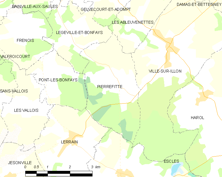 Map of French municipality Pierrefitte